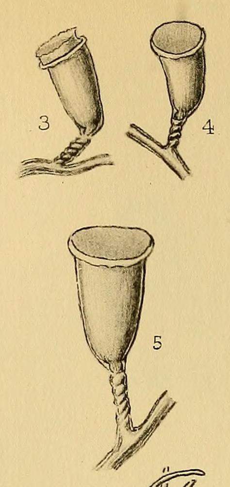 Hydrozoa from Cap Verde. 3. Specimen from St. Vincent with regenerated margin, magnification × 20 4. Specimen from St. Vincent showing asymmetry, magnification × 20 5. Specimen from Porto Prava, magnification × 20